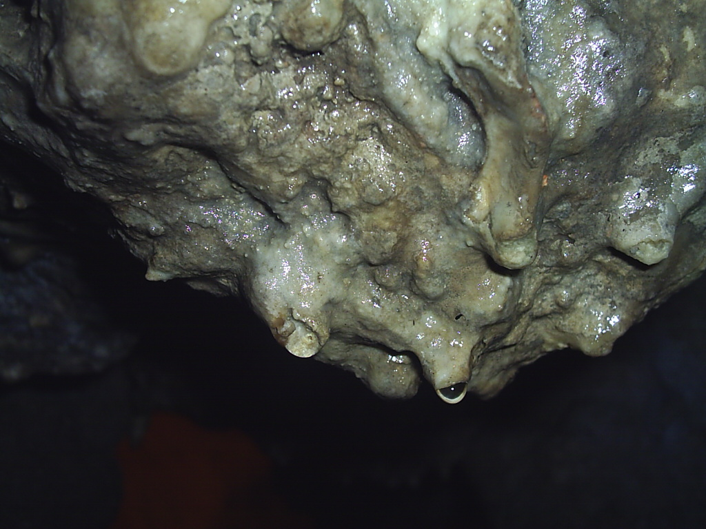 Loltun Cave, Yucatan. Drops forming on stalactites, illustrating the process on which stalactites are formed.